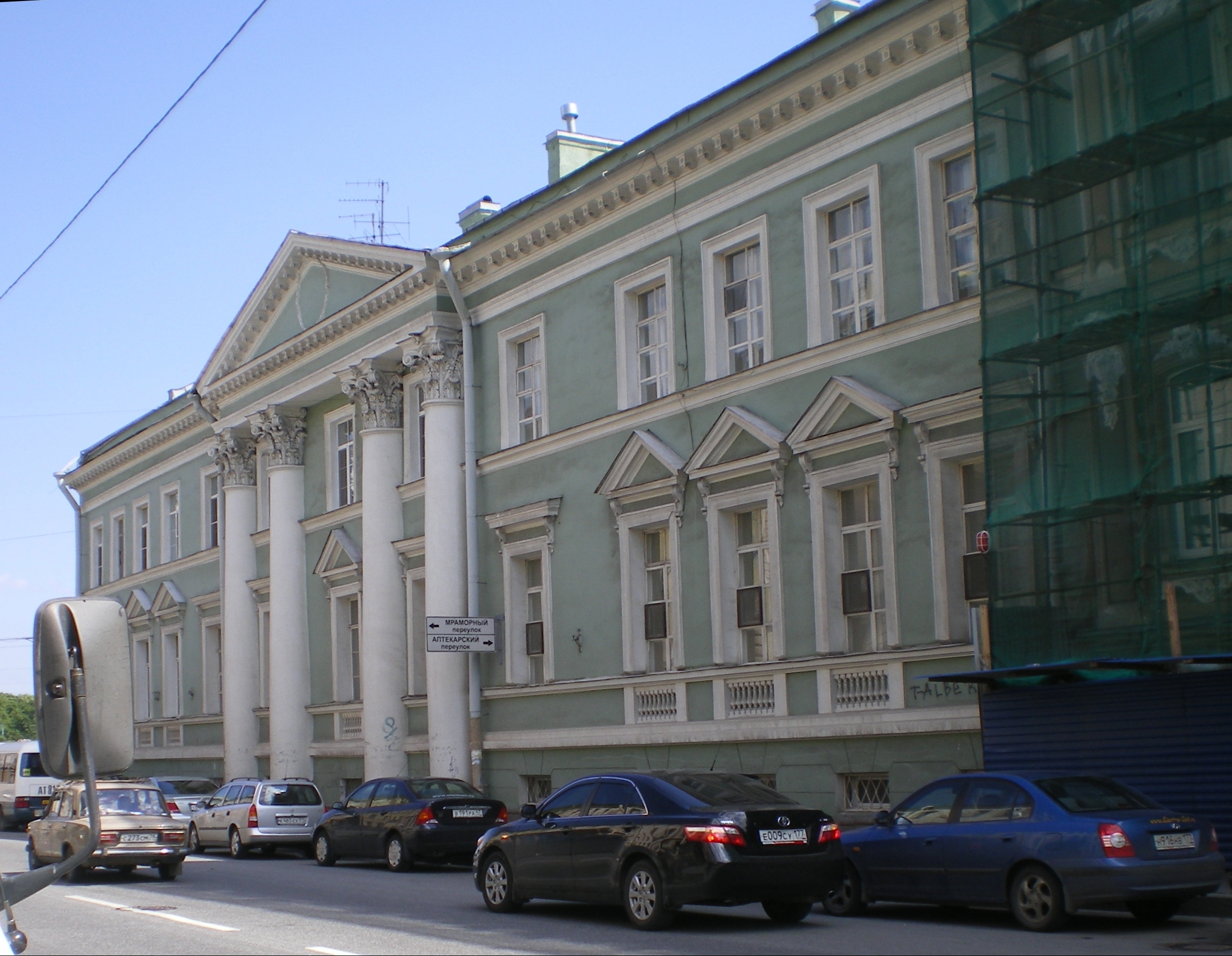 The main facade of the building former Chief Pharmacy